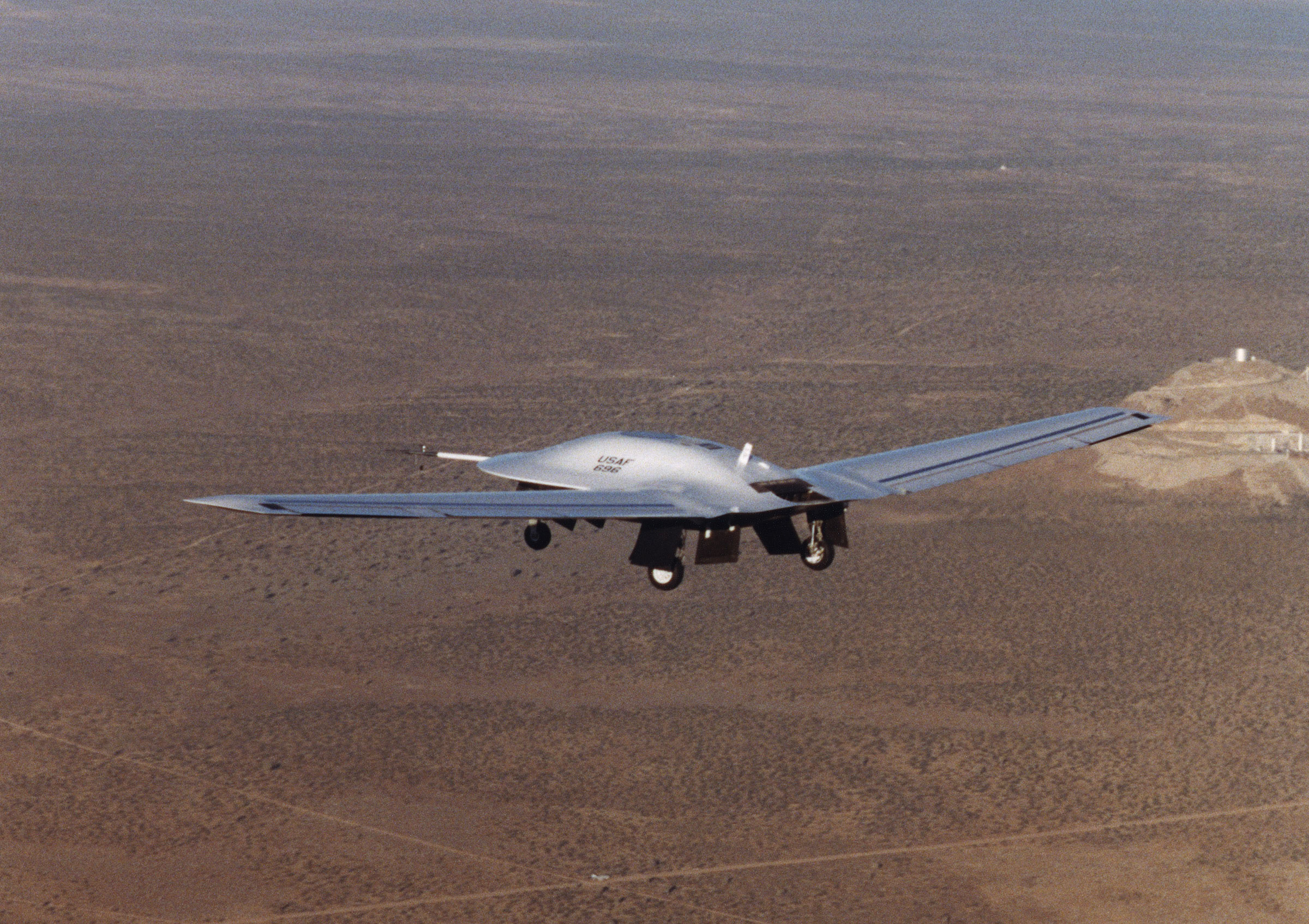 The second Tier III Minus DarkStar high altitude endurance unmanned air vehicle flies over the NASA Dryden Flight Research Center, Edwards Air Force Base, Calif., on June 29, 1998. The vehicle took off from the Air Force Flight Test Center at Edwards at 6:14 a.m. (PDT). During the 44-minute flight, the vehicle achieved an altitude of approximately 5,000 feet and completed pre-programmed basic flight maneuvers. The system successfully executed a fully autonomous flight from takeoff to landing utilizing the differential Global Positioning System.